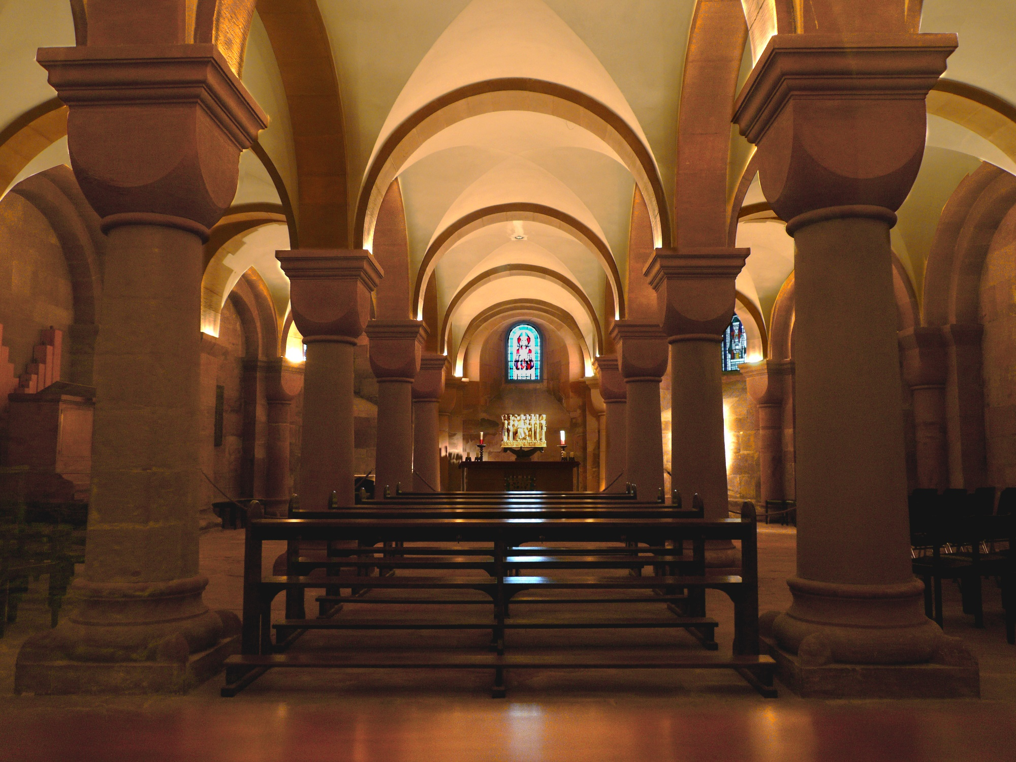 Eastern crypta of Mainz cathedral